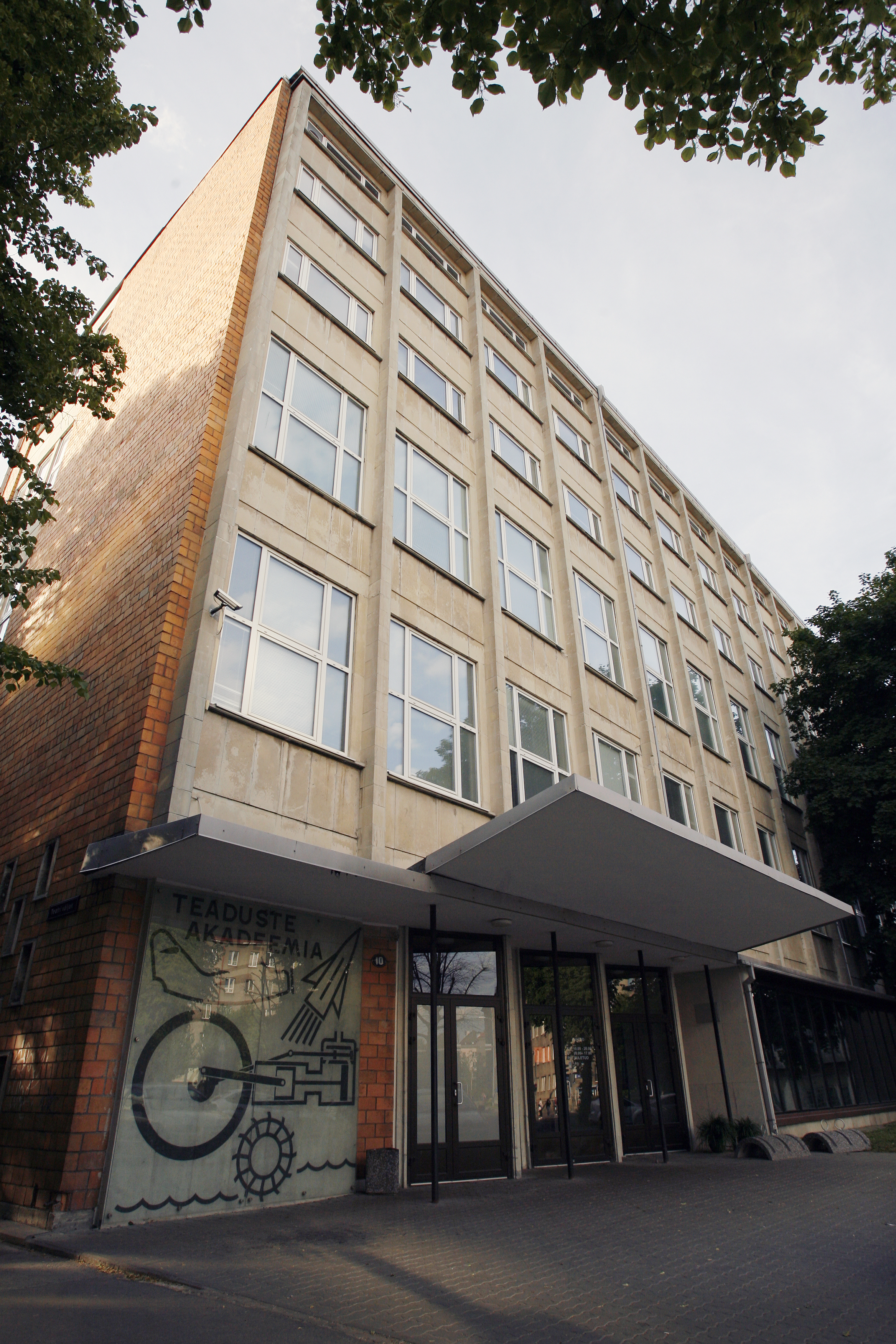 The main building of the Tallinn University (TLU) Academic Library, Rävala pst 10, Tallinn, Estonia